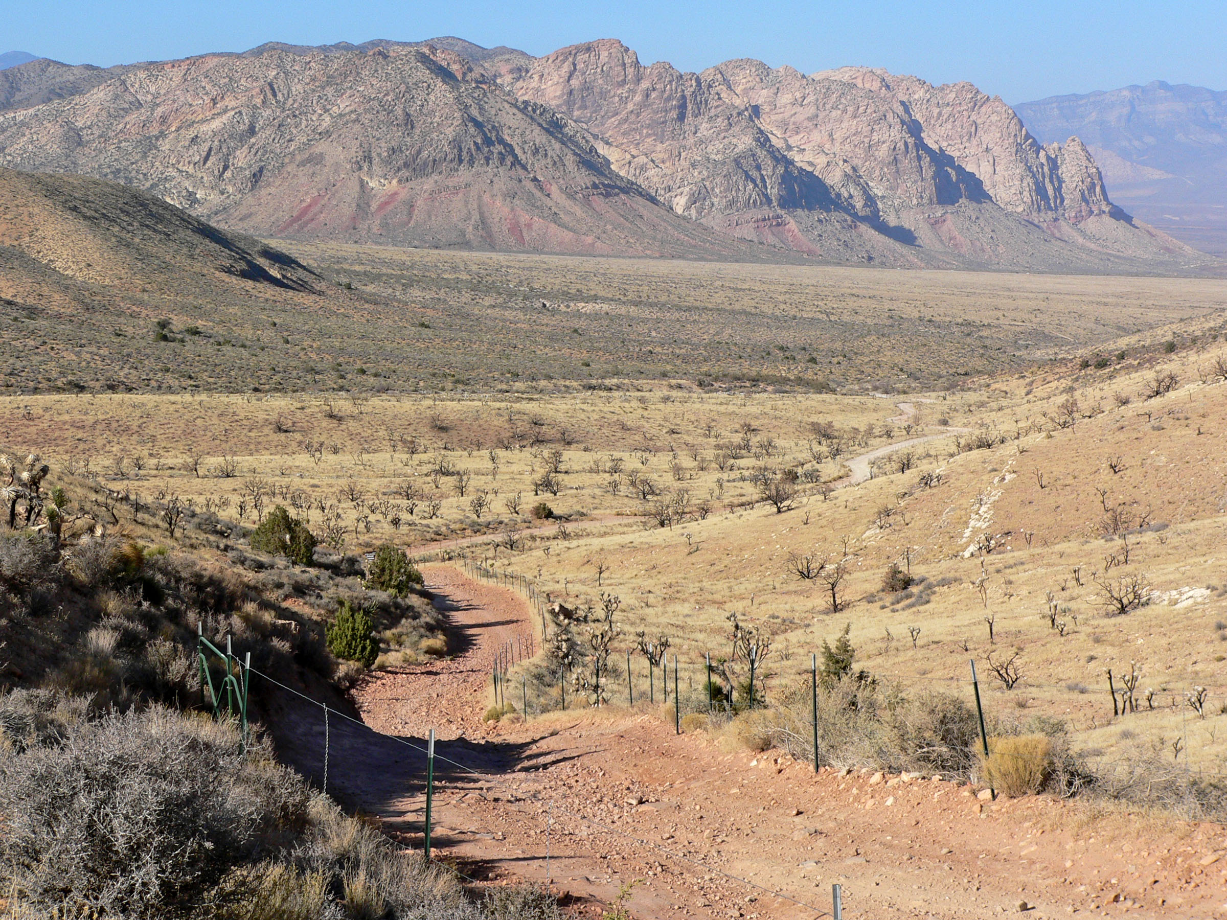 Cottonwood Pass looking north towards Red Rock Canyon, Spring Mountains, southern Nevada